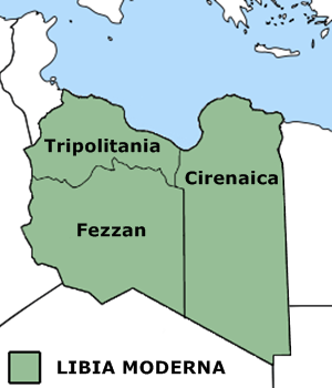 The Ottoman Turks conquered the country in the mid-16th century, and the three States or "Wilayat" of Tripolitania, Cyrenaica and Fezzan (which make up Libya) remained part of their empire with the exception of the virtual autonomy of the Karamanlis. The Karamanlis ruled from 1711 until 1835 mainly in Tripolitania, but had influence in Cyrenaica and Fezzan as well by the mid 18th century.